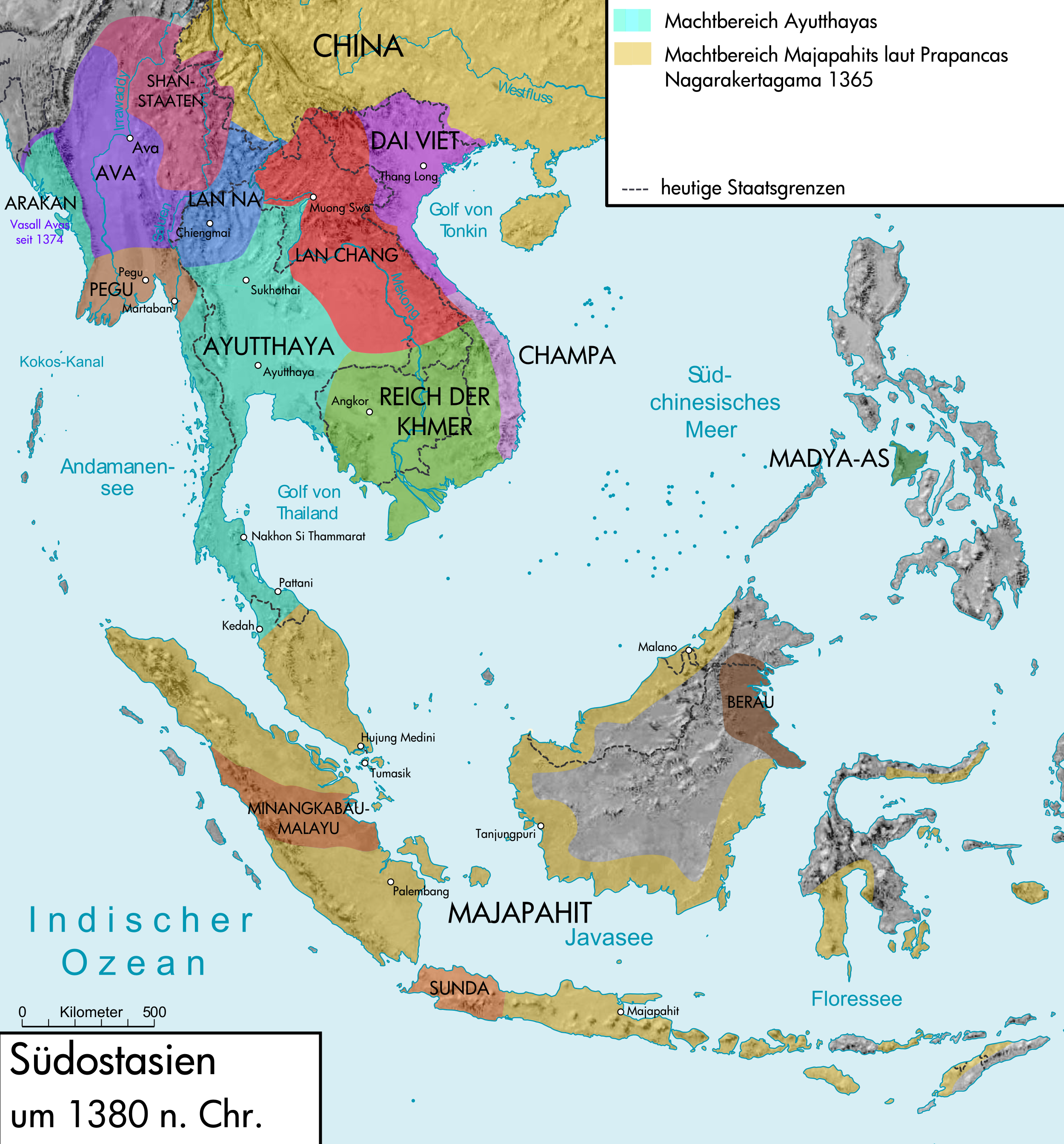 Map of South-East Asia around 1317 AC.